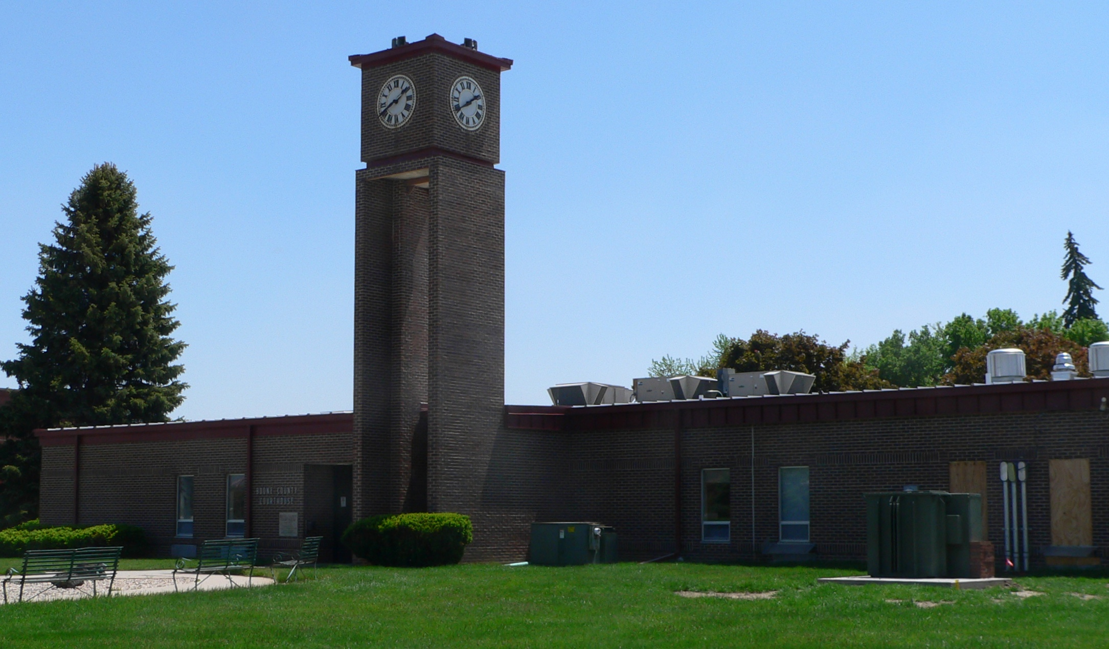 Boone County Courthouse in Albion, Nebraska; seen from the northwest. The courthouse was built in 1976.